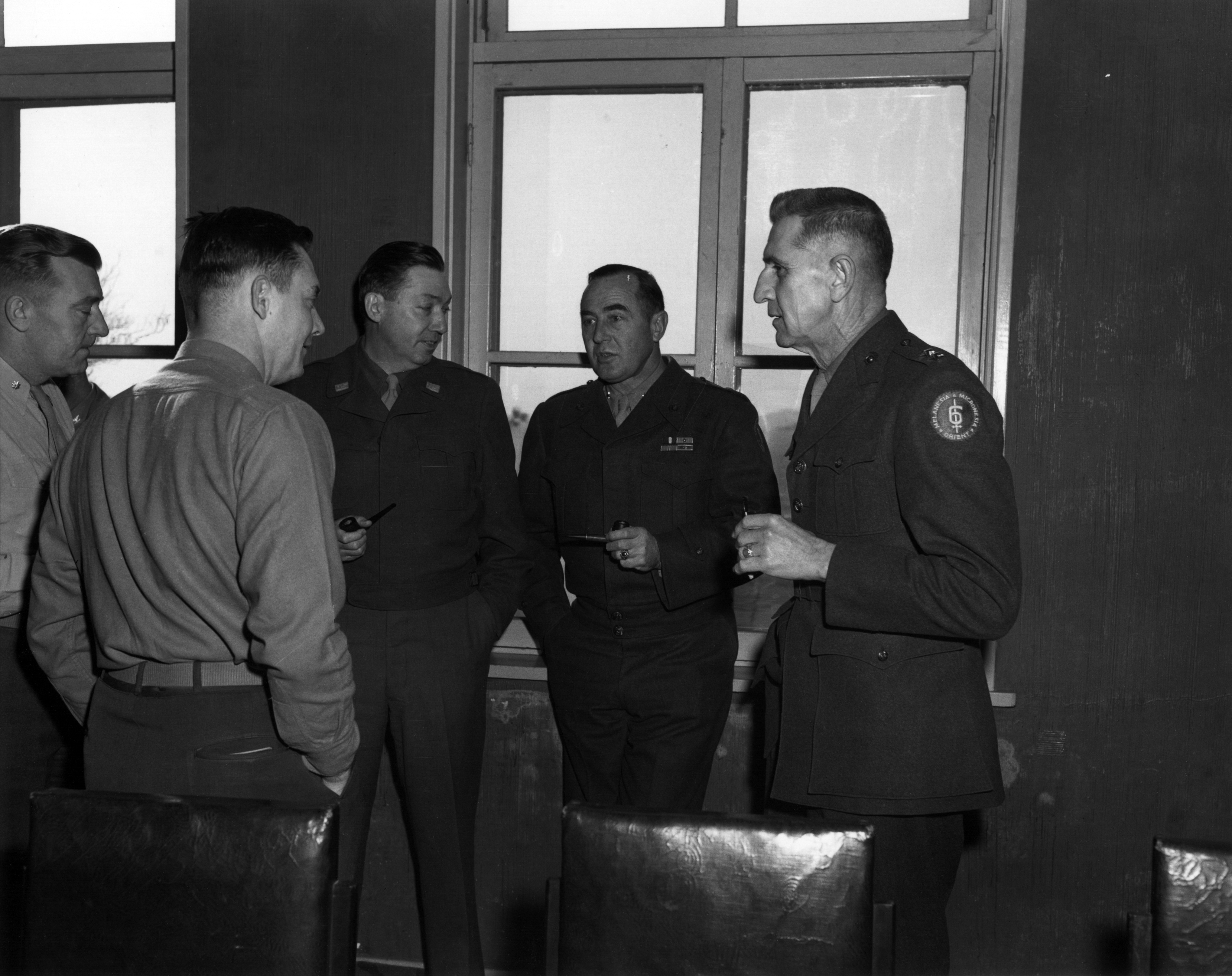 Major general Archie F. Howard, commanding general of 6th Marine Division with his staff after press conference in Tsingtao, China on January 22, 1946. From left to right: Lt. col. Frederick Belton (Personnel officer), Lt. col. Samuel Shaw (Logistics officer), Joseph Hearst (Chicago Tribune Correspondent), Brig. gen. William T. Clement (Assistant division commander) and General Howard.